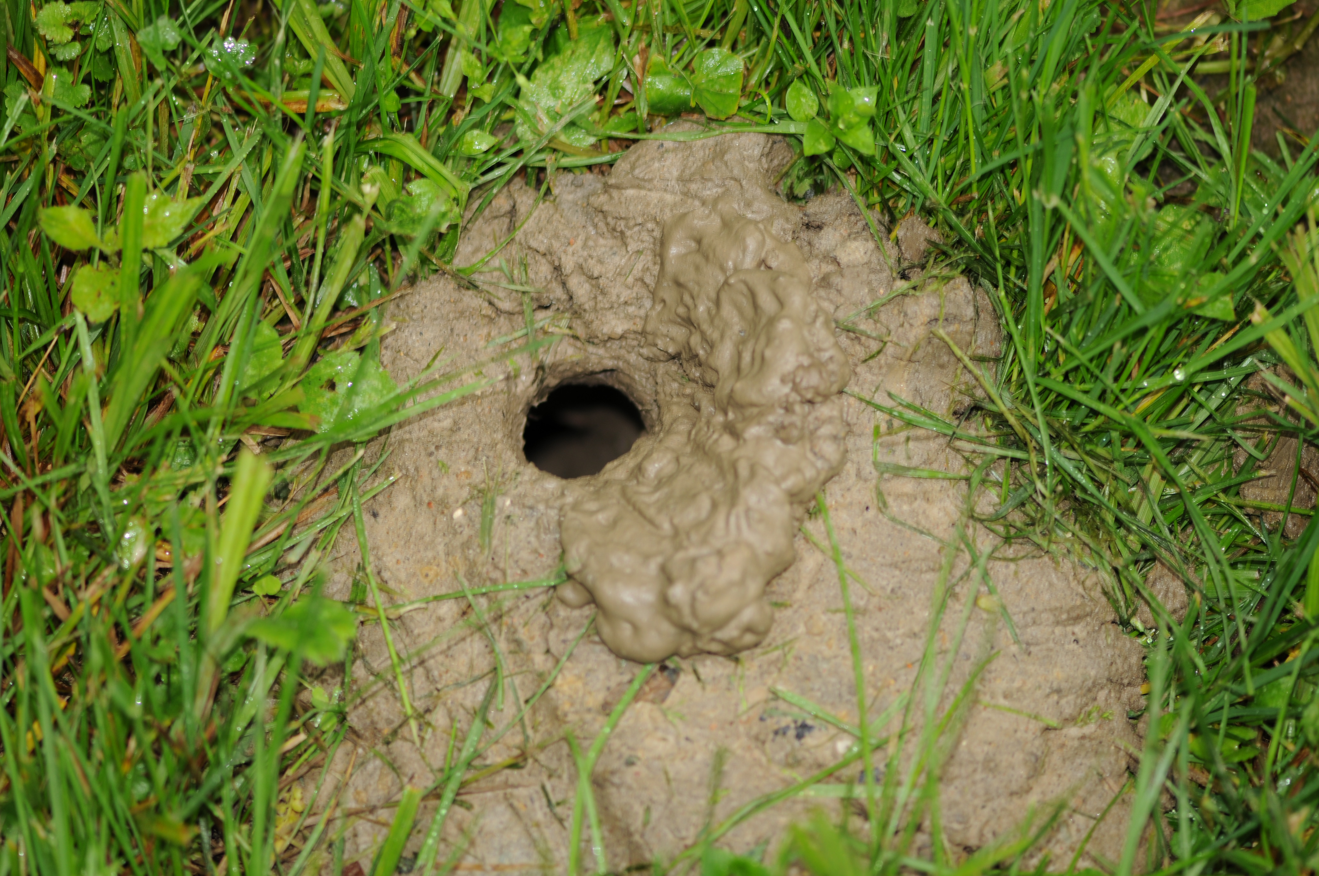 I think a recently made one. didn't even know what these holes were. Until I was told and snap snap and got the heck out of dodge.